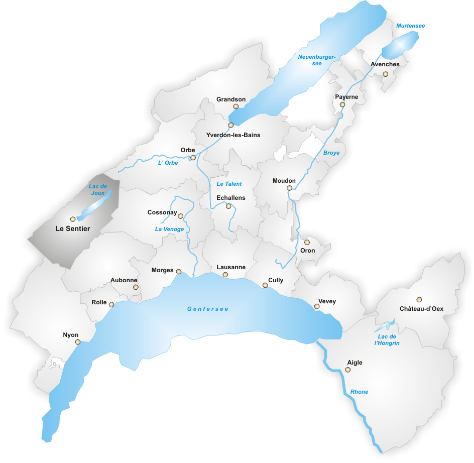 District La Vallée until 2007